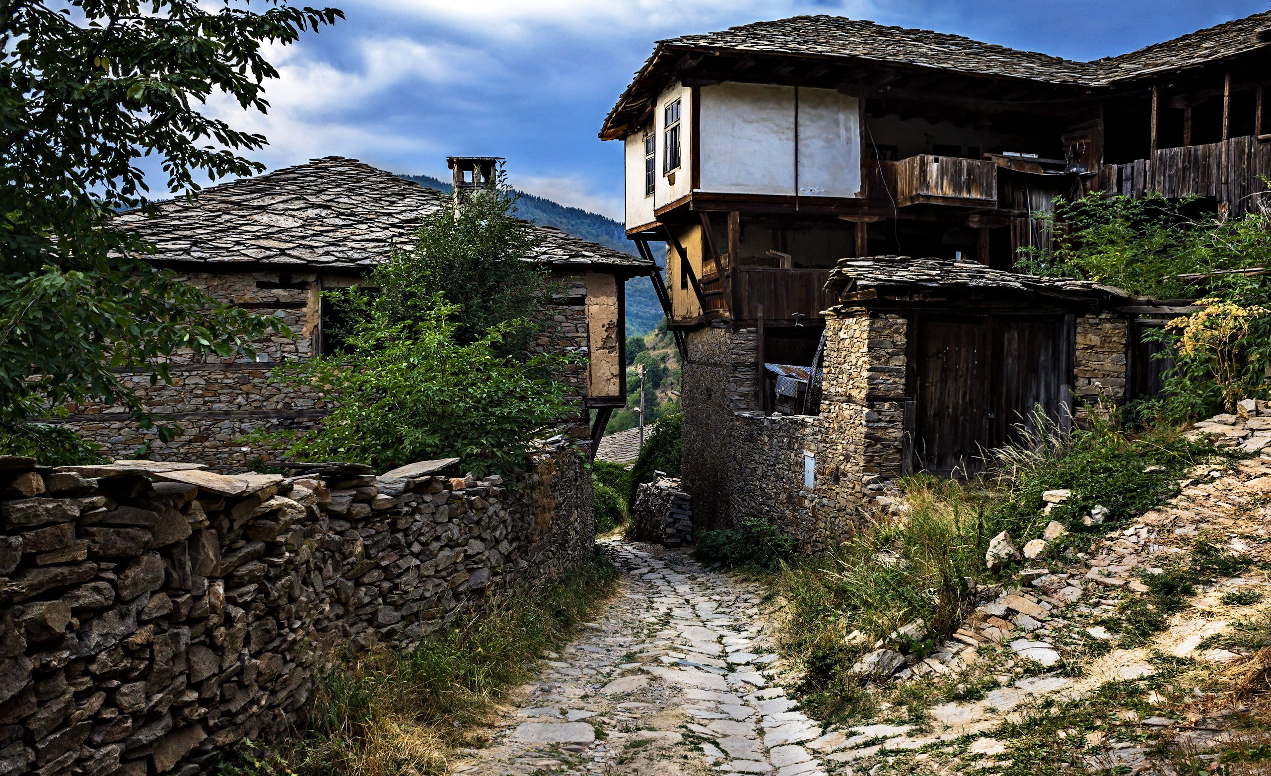 Kovachevitsa village